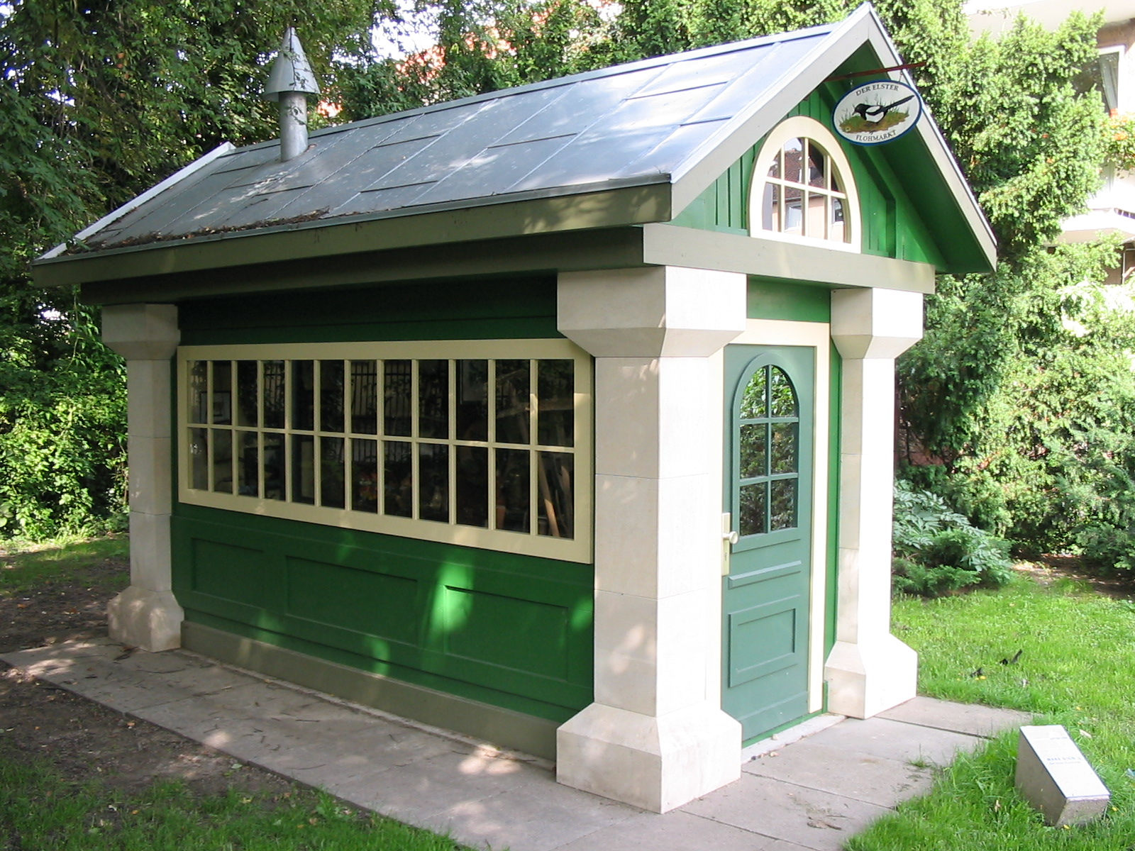 Braunschweig Elster Flohmarkt